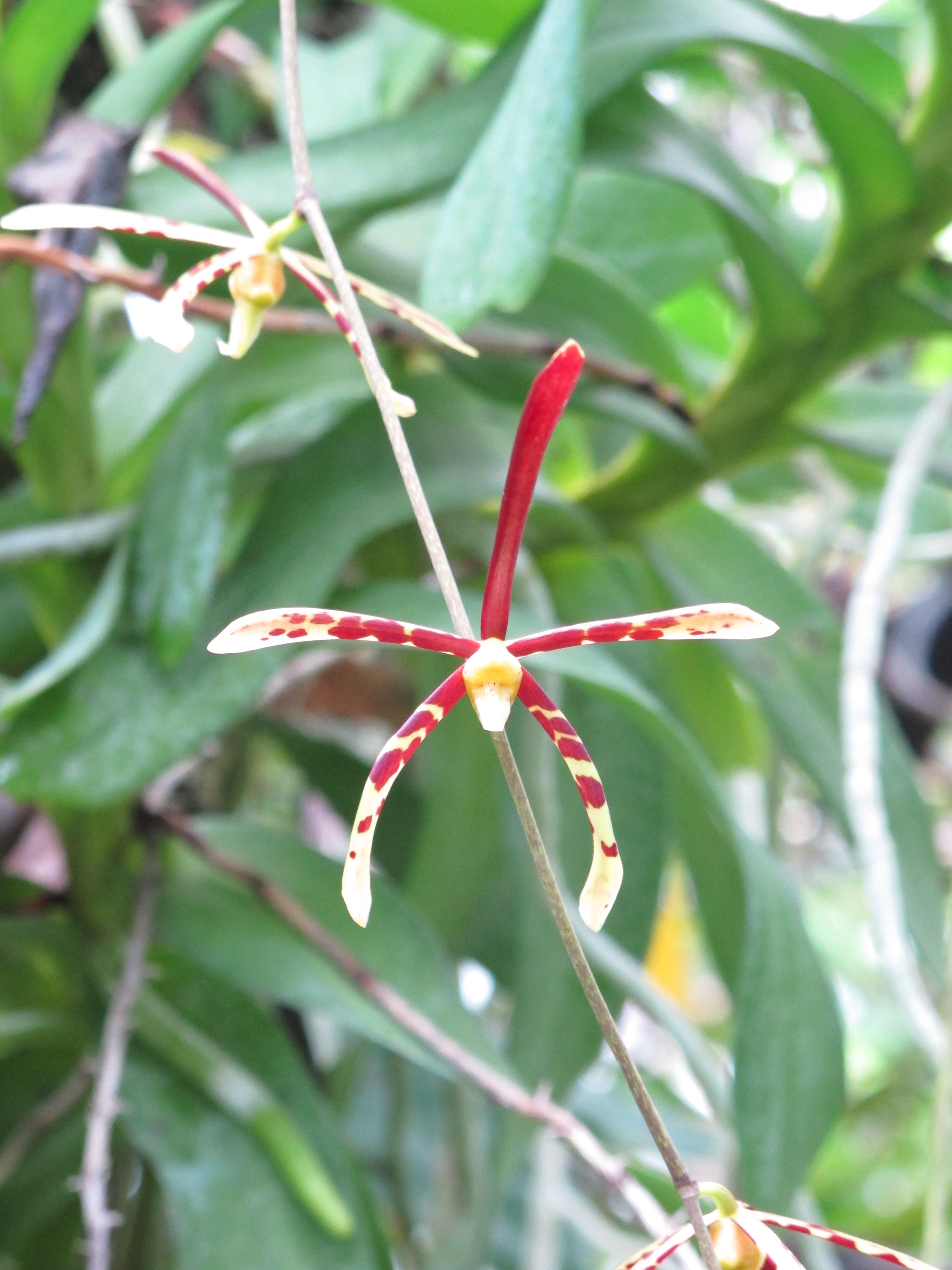 Arachnis longisepala; cultivated, Wertheim Conservatory, Florida International University, Miami, Florida, USA. This rare species was discovered and named in the early 1980s from Sabah, Borneo. It was originally described as A. calcarata ssp. longisepala, but the following year it was elevated to species rank. This is the first flowering of this plant, which is growing on a branch with the more vigorous Aerides odorata.